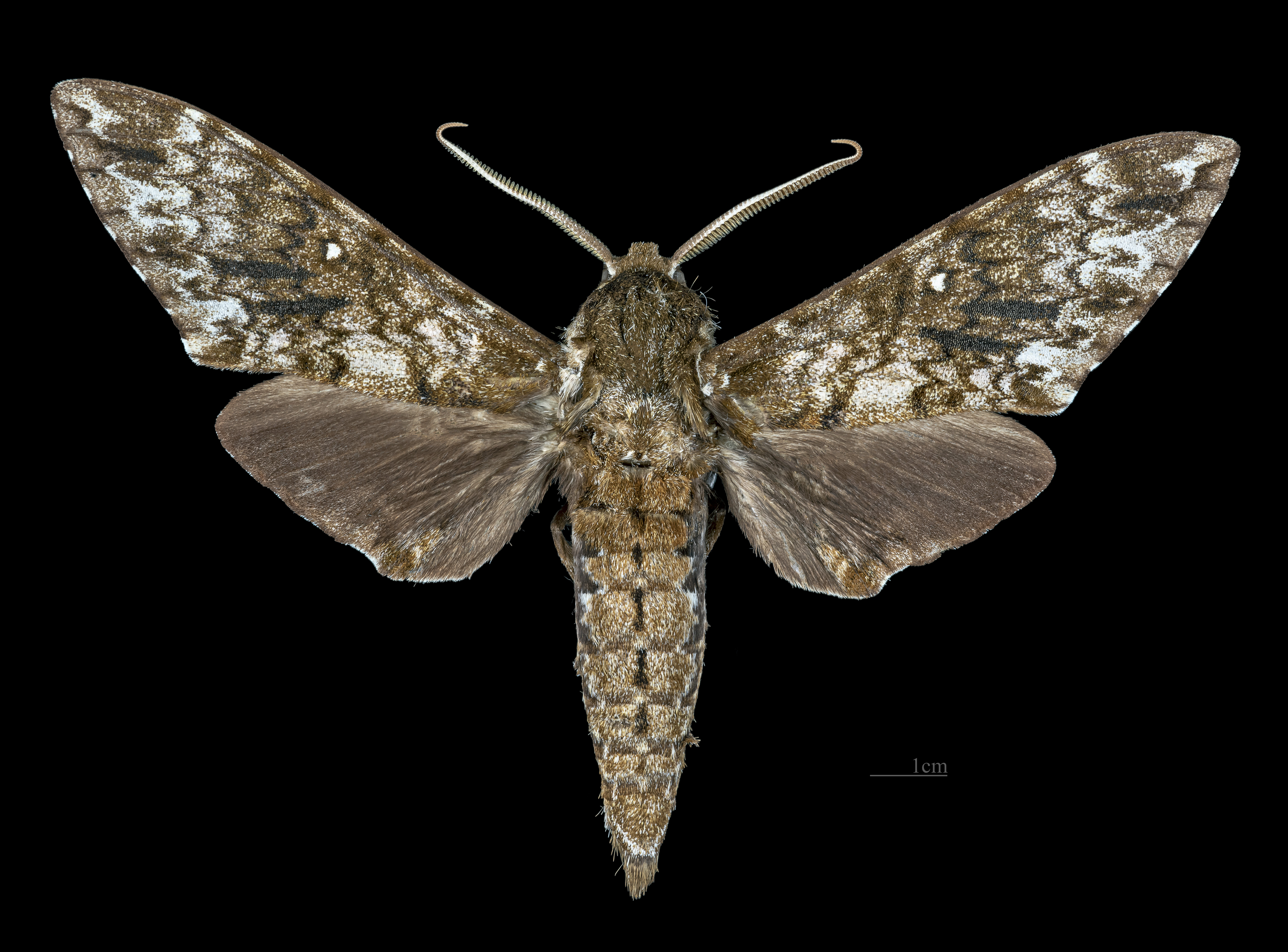 Dolbina inexacta - Dorsal side Collection of the Mathematician Laurent Schwartz